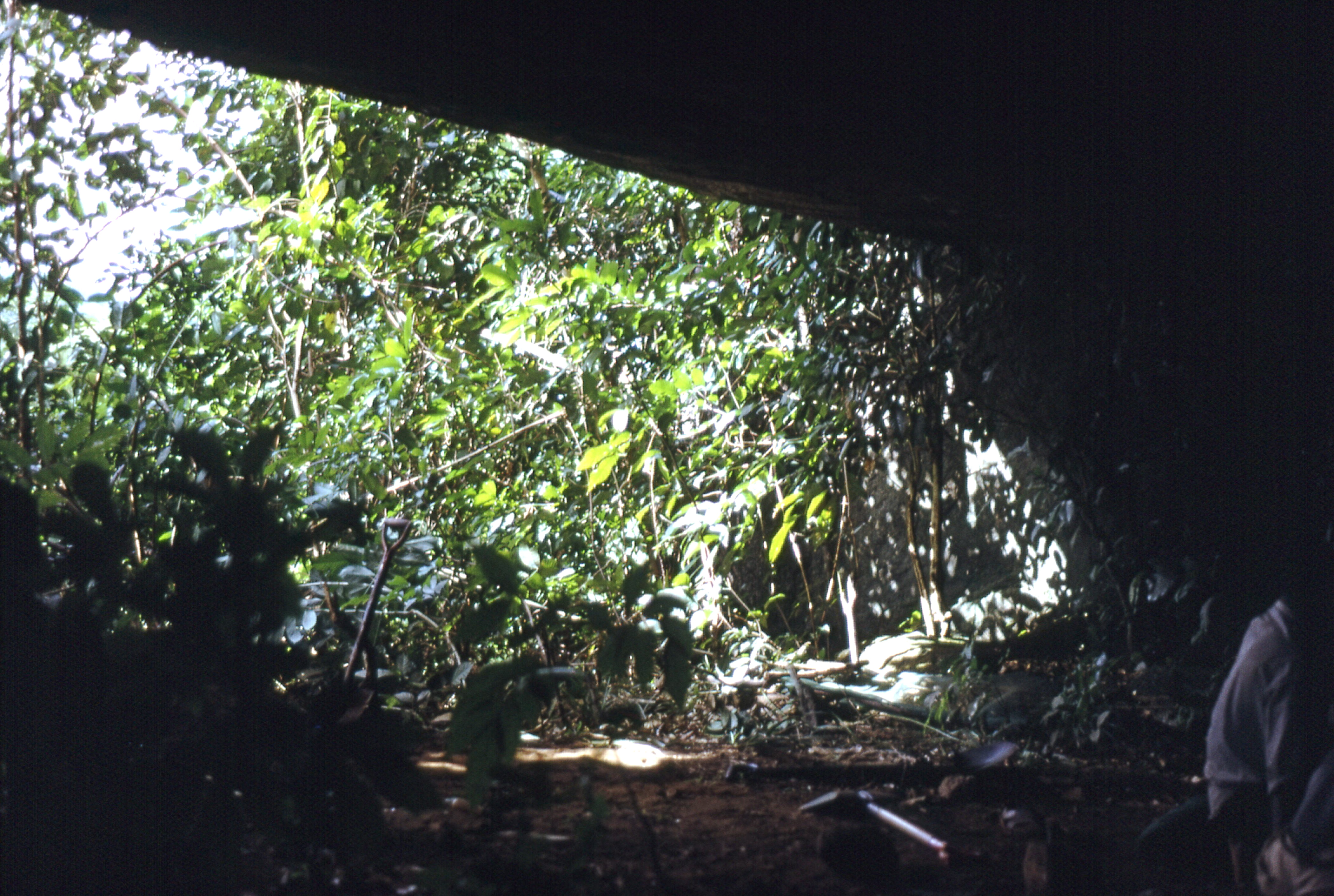 Photo taken in 1968 from the interior of the shelter.